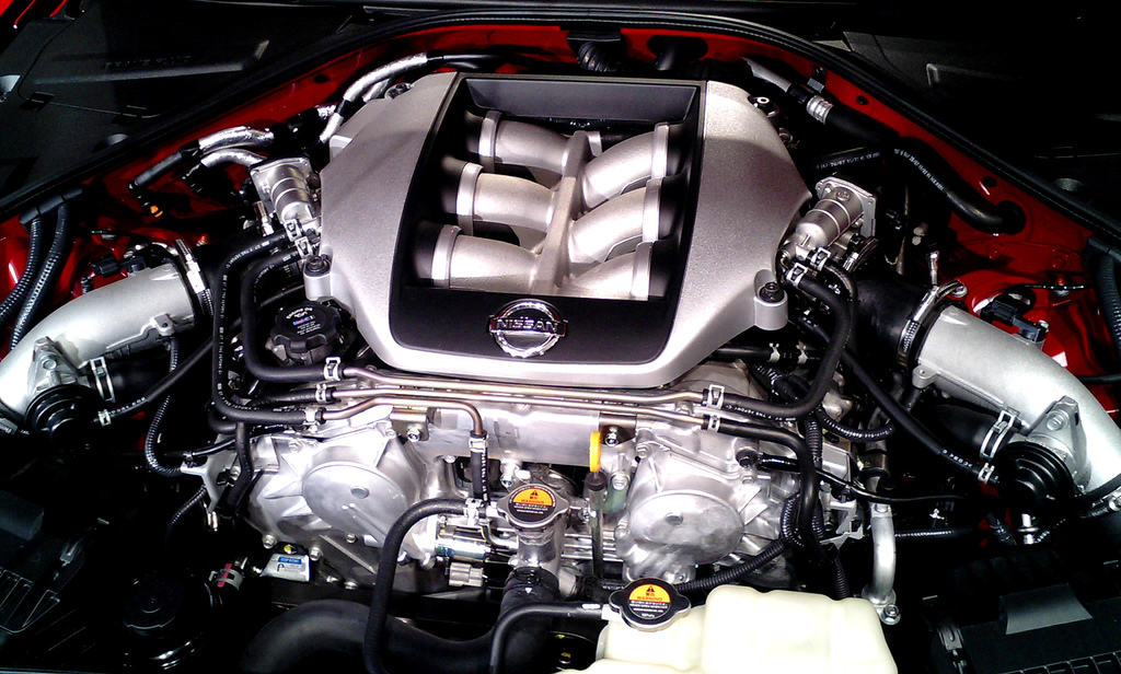 VR38DETT Nissan GT-R engine @ NISSAN Gallery Sapporo. 2007/10/28